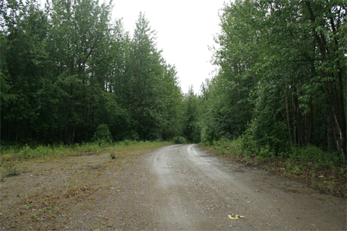 Part of a 2.5-mile bypassed segment of the Alaska Highway, 37 mi SE of Delta Junction, AK. The road is still in use for access to Craig Lake, and is listed in the National Register of Historic Places as "one of the few sections of the road in Alaska virtually unchanged." Photo image is taken from that NRHP listing, ref num 13000543.